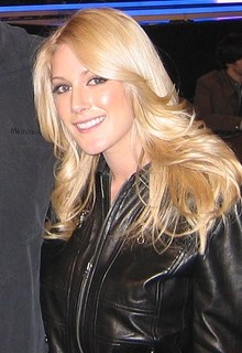 Pratts and Chris at Spike Las Vegas